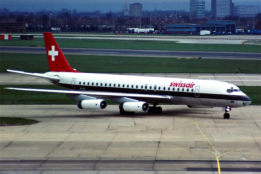 HB-IDL Douglas DC-8-62 Swissair. Heathrow 1 April 1983